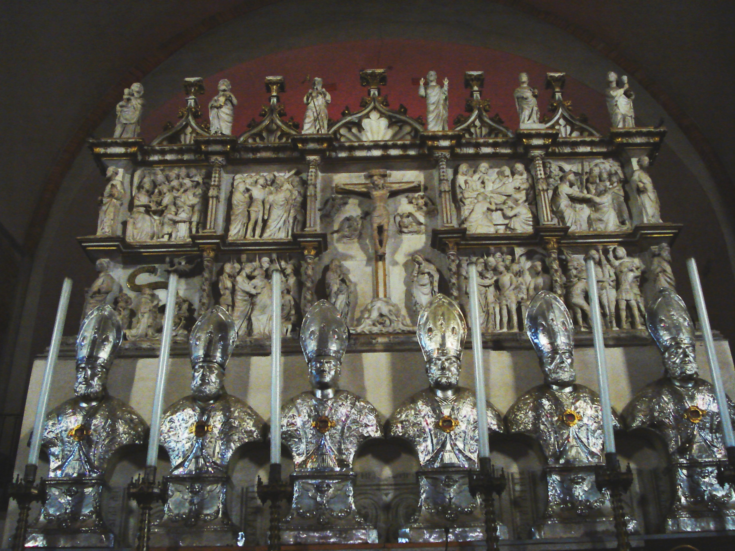 Sant'Eustorgio church in Milan: the main altar, sporting a marble dossal, attributed to Giovannino de' Grassi e Matteo da Campione (early 15th century). In front of it, baroque silver reliquaries. Picture by Giovanni Dall'Orto, January 12 2007.